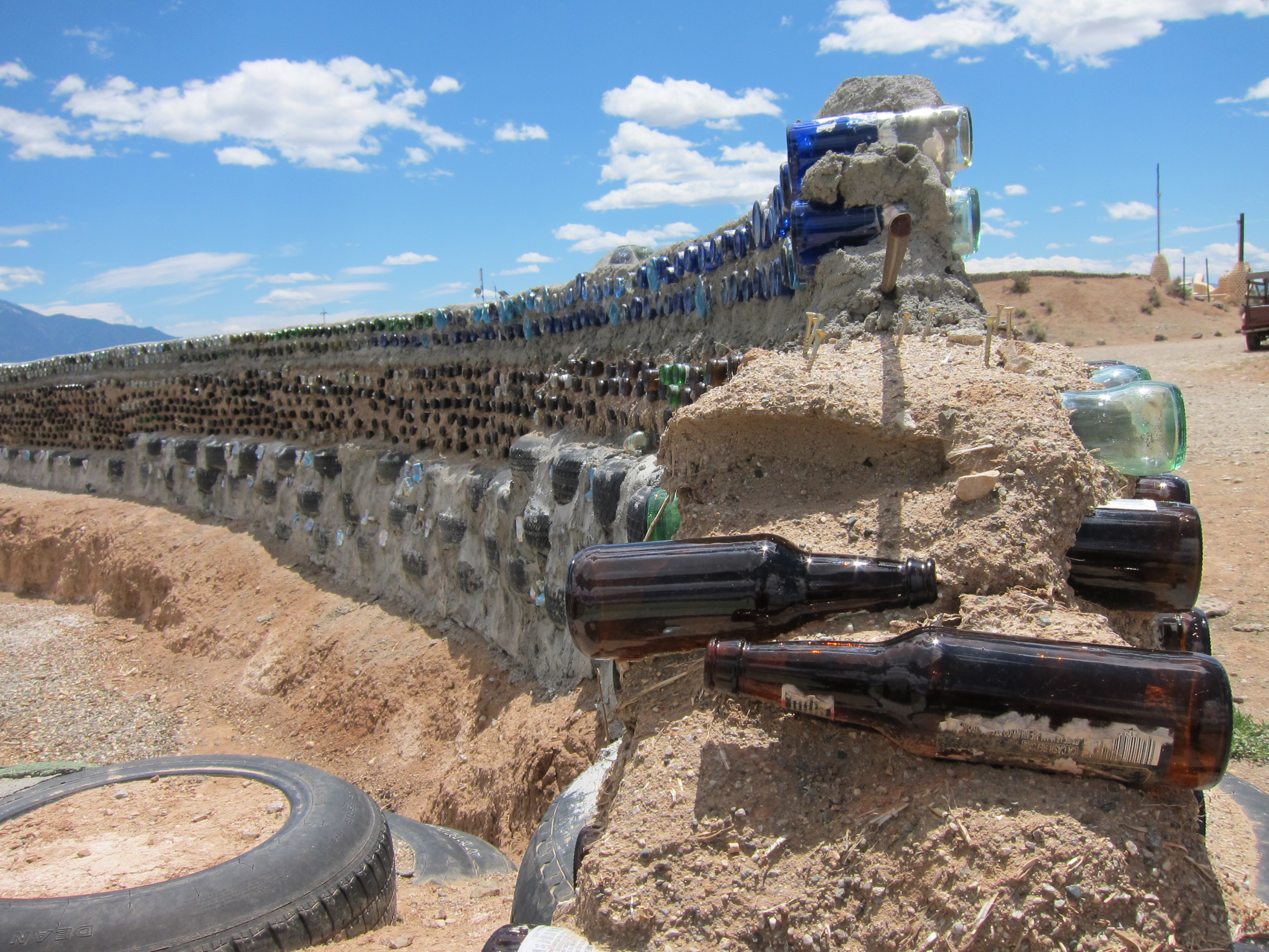 Bottle and Tire Bricks Earthship